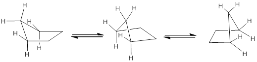 Conformeros no ciclopentano